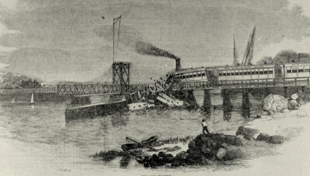 On May 6, 1853, the engineer of the 8 am New York and New Haven Railroad train bound from Manhattan to Boston failed to note that the drawbridge at South Norwalk was open to let a steamer pass. The train plunged into the river, and nearly 40 passengers were drowned. Leslie’s Illustrated News, - Connecticut Historical Society